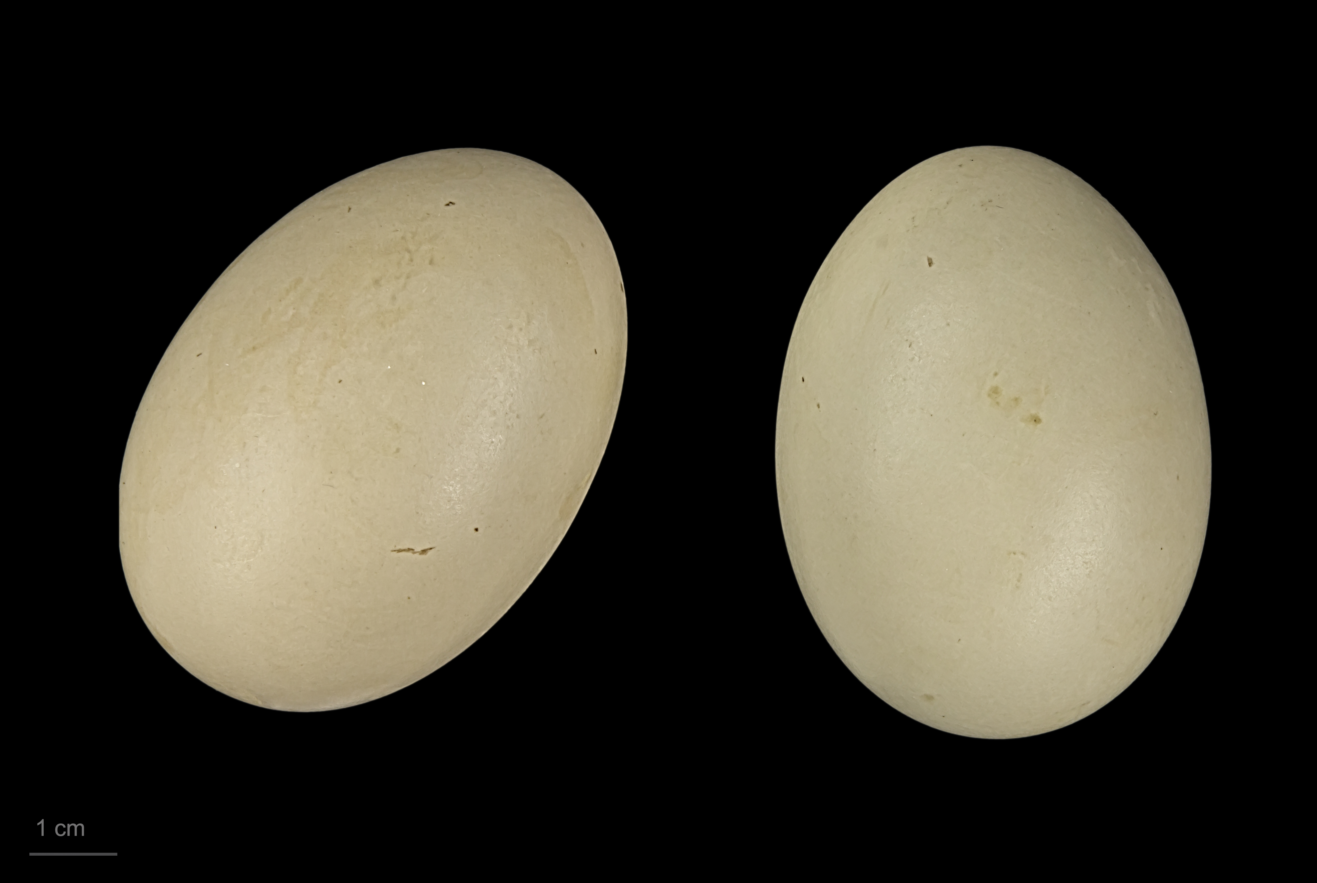 Eggs of tufted duck Two specimens of the same spawn ; collection of Jacques Perrin de Brichambaut.